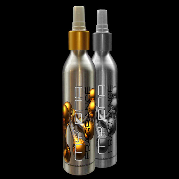 My DNA Fragrance "Exclusive" perfume and cologne bottles with perfume finger sprayers.